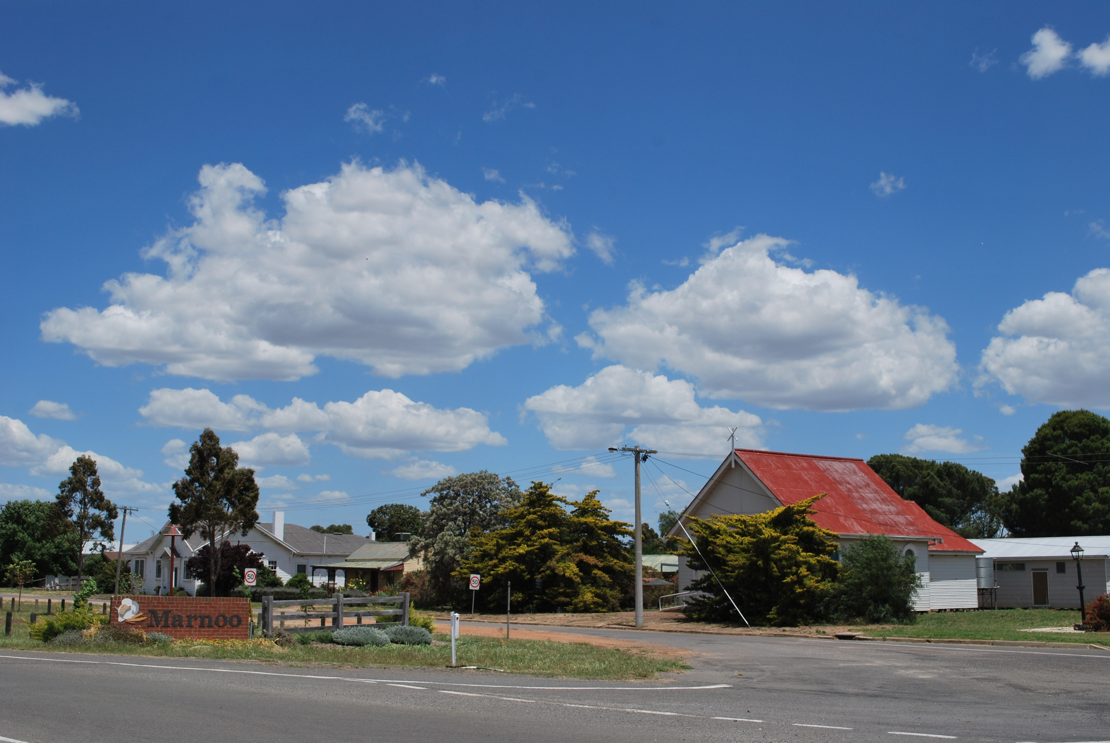 Town entry sign at Marnoo, Victoria